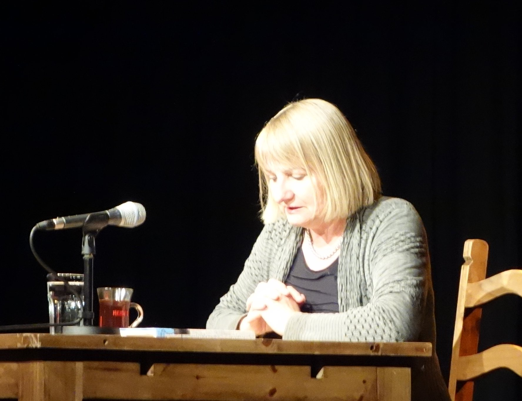 Vera Lengsfeld in Q24 theatre in Pirna, 2015